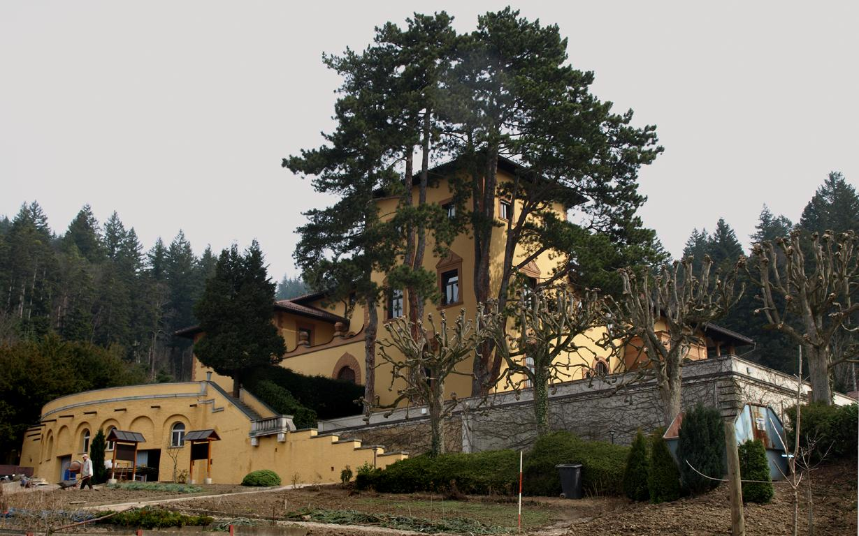 Freiburg in Breisgau,Günterstal, Baden-Württemberg (Germany): monestary of Lioba